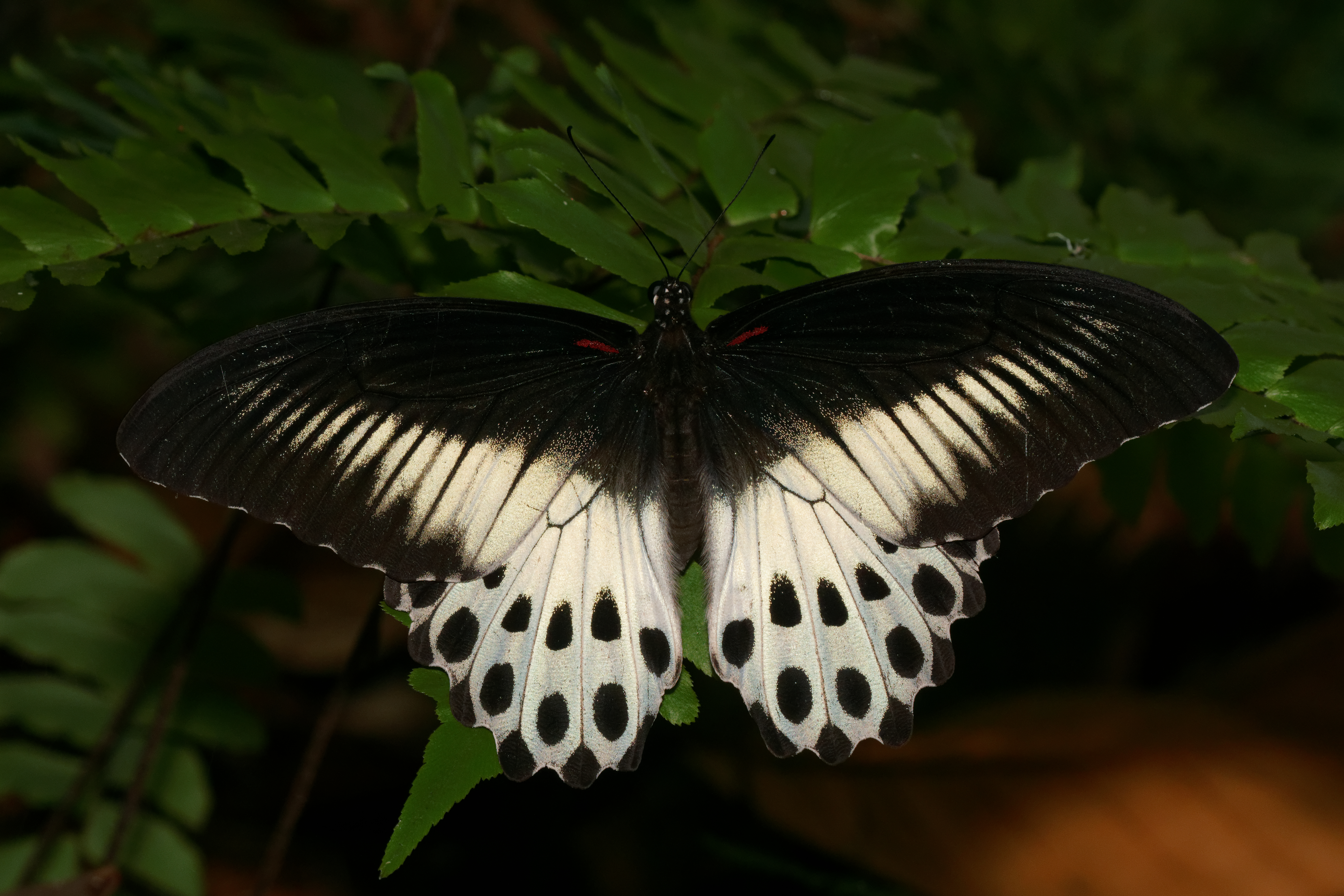 Papilio polymnestor, Blue Mormon, is a large swallowtail butterfly found in South India and Sri Lanka.